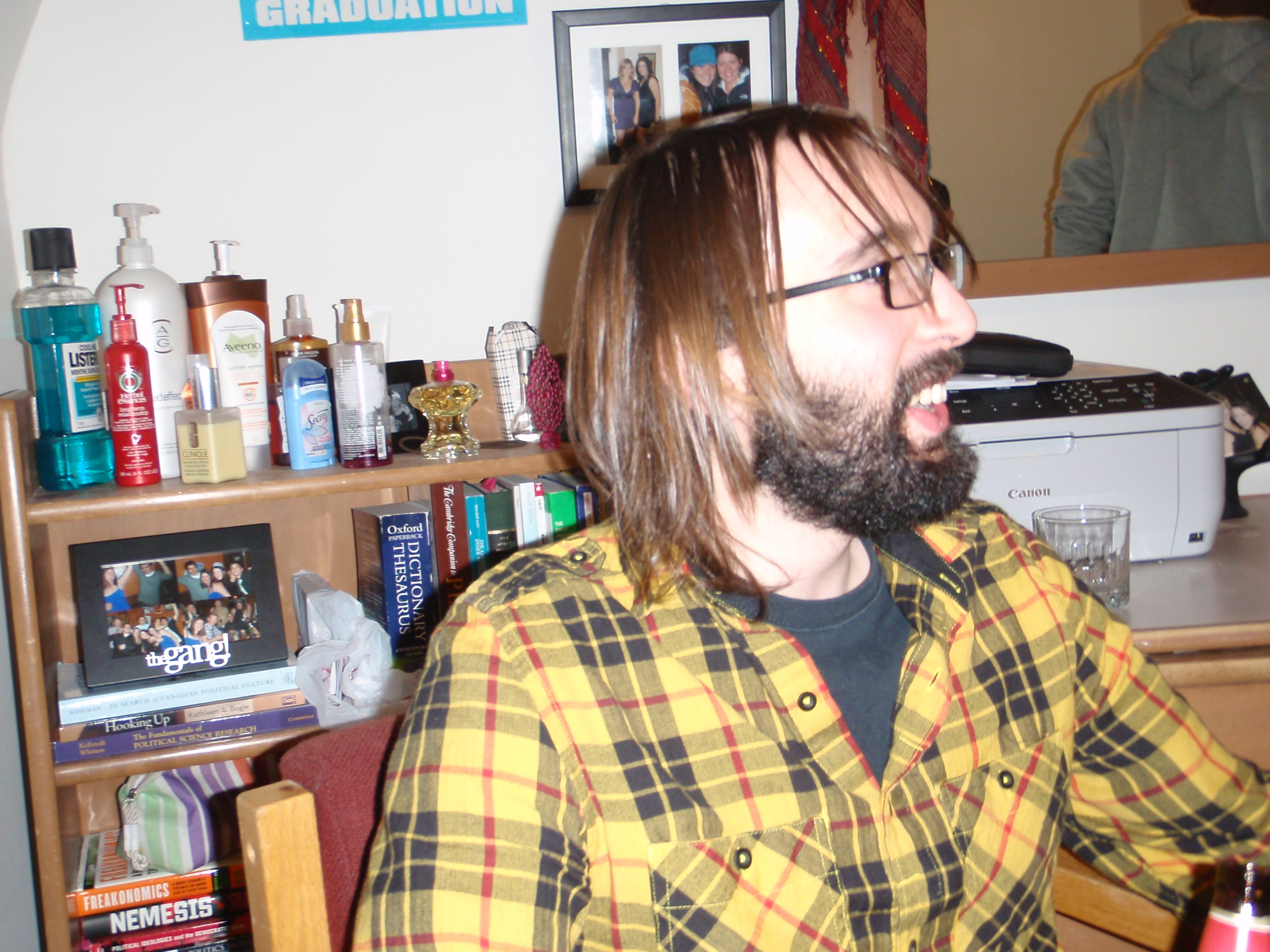 Young hipster guy in plaid shirt. In the background, a bookshelf, apparently belonging to a woman, containing, among others, The Cambridge companion to Plato The Oxford Dictionary - Thesaurus (paperback) Nelson Wiseman's In Search of Canadian Political Culture Kathlen Bogle's Hoking Up Paul M. Kellstedt's and Guy D. Whitten's The Fundamentals of Political Science Research Steven Levitt's and Stephen J. Dubner's Freakonomics Chalmers Johnson's Nemesis: The Last Days of the American Republic Richard Dagger's Political Ideologies and the Democratic Ideal. On the top of the bookshelf, a bottle of Listerine. On the right of the picture, a Canon printer